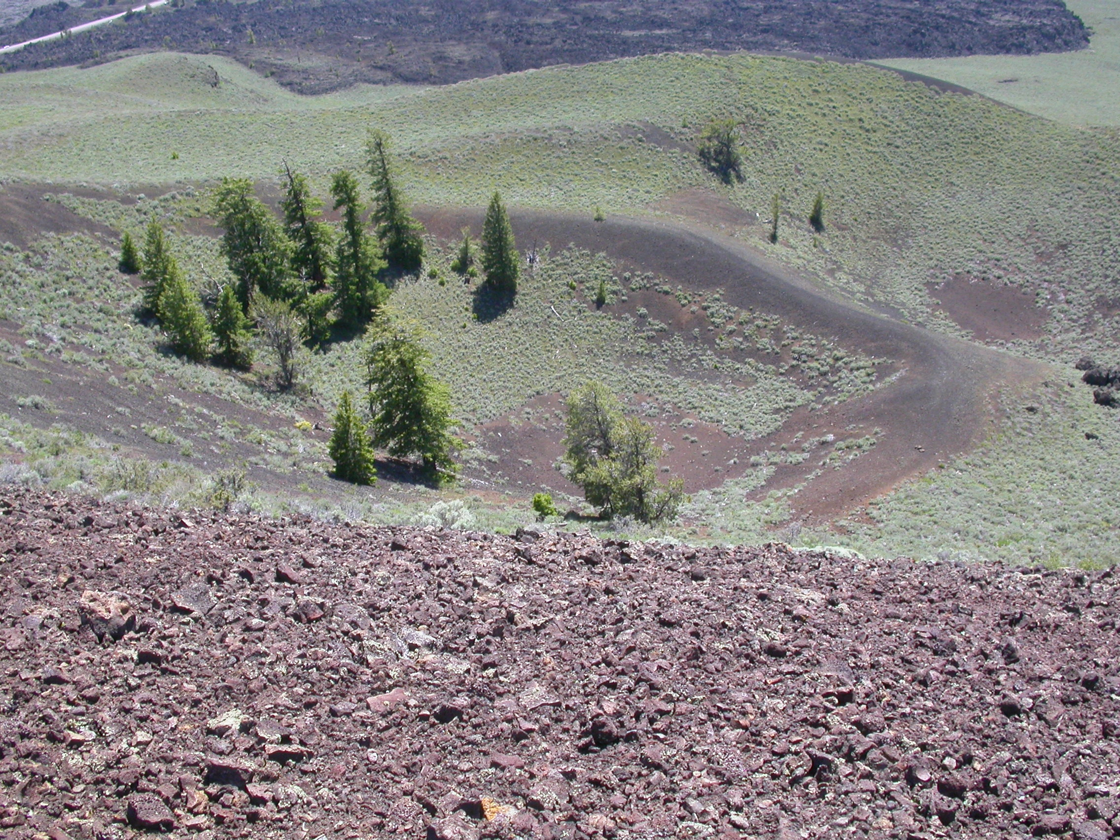 Limber Pine Pinus flexilis is the most common tree in this area and occurs often in scattered and patchy stands.